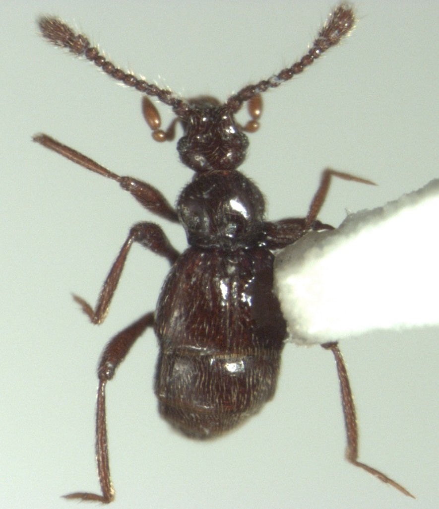 adult Startes foveata